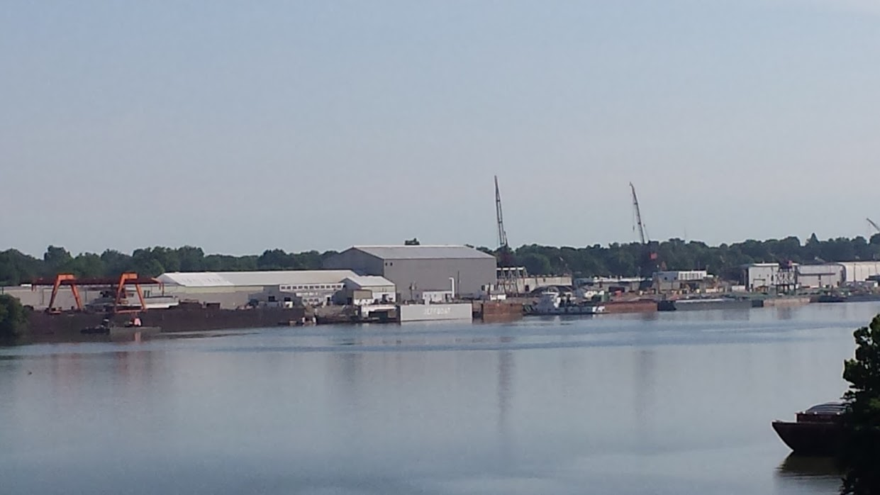 Jeff Boat as viewed from the Big 4 Bridge.